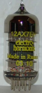 Photo of vacuum tube.